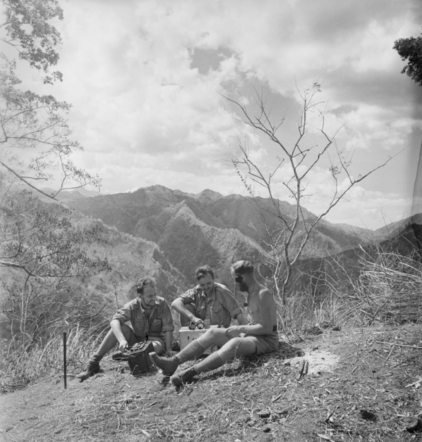 Australian commandos operate a radio on a mountain top in Timor, in about November 1942. They are, (left to right): Signaller Keith Richards, Cpl John Donovan and Sgt Jack Sargeant, all from the 2/2nd Independent Company, which was part of Sparrow Force.